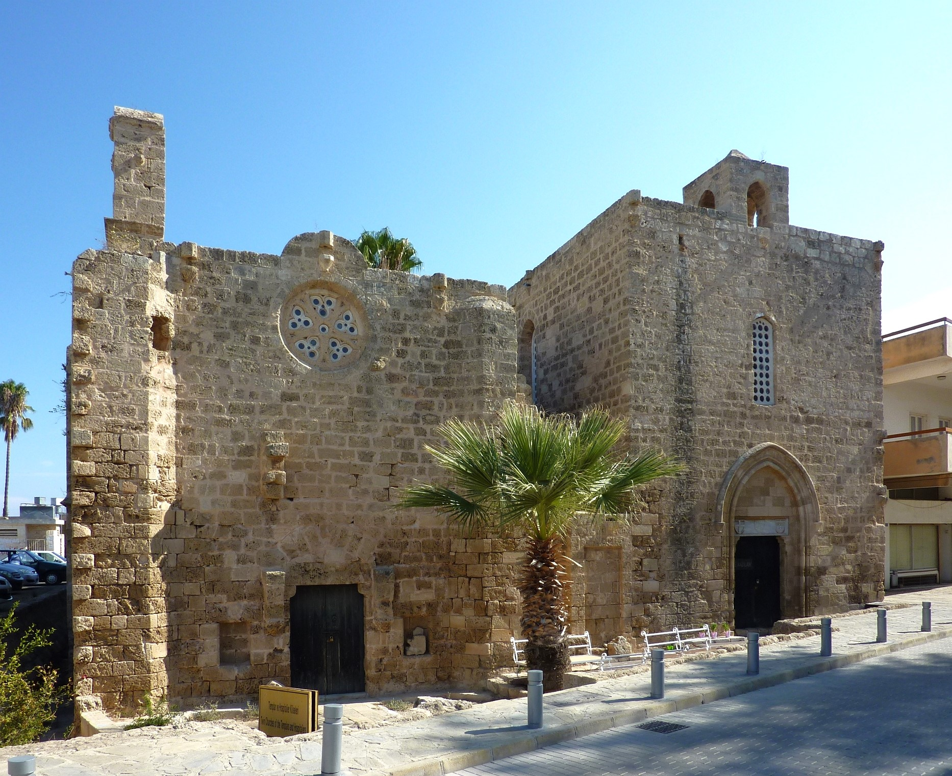 Knights Templar and Hospitaller Churches, Famagusta